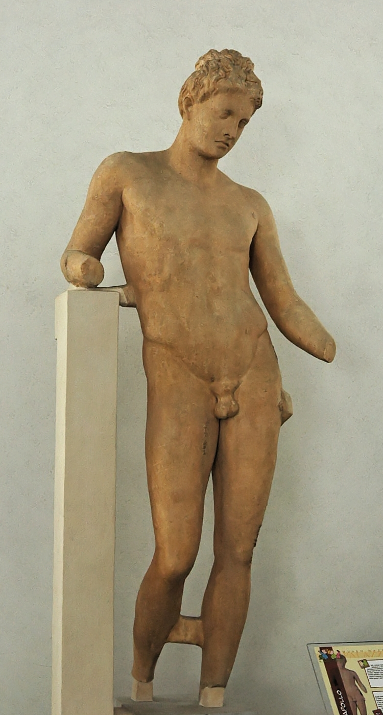 So-called “Anzio Apollo”. Marble, Roman copy after a Greek original of the 4th or the 2nd century BC, first half of the 1st century CE. From the imperial villa in Anzio.